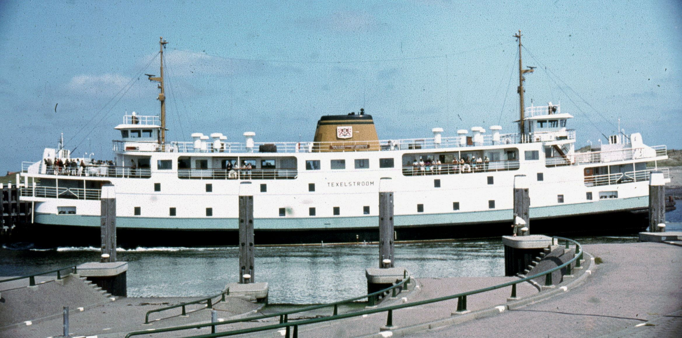 Teso ferry „Texelstroom“ (buildt 1966) in 't Horntje, Texel, The Netherlands, 1968